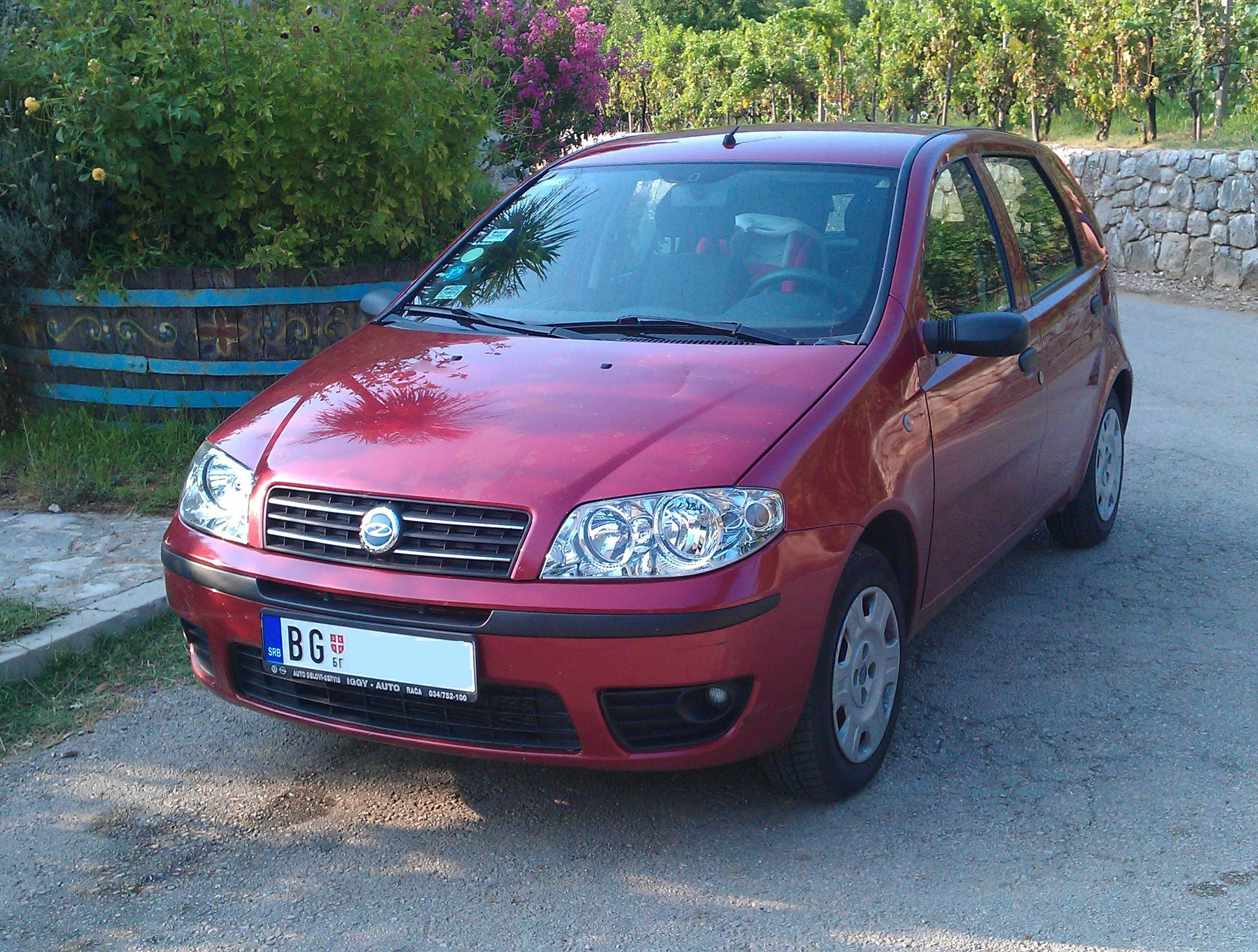 Zastava 10, front view